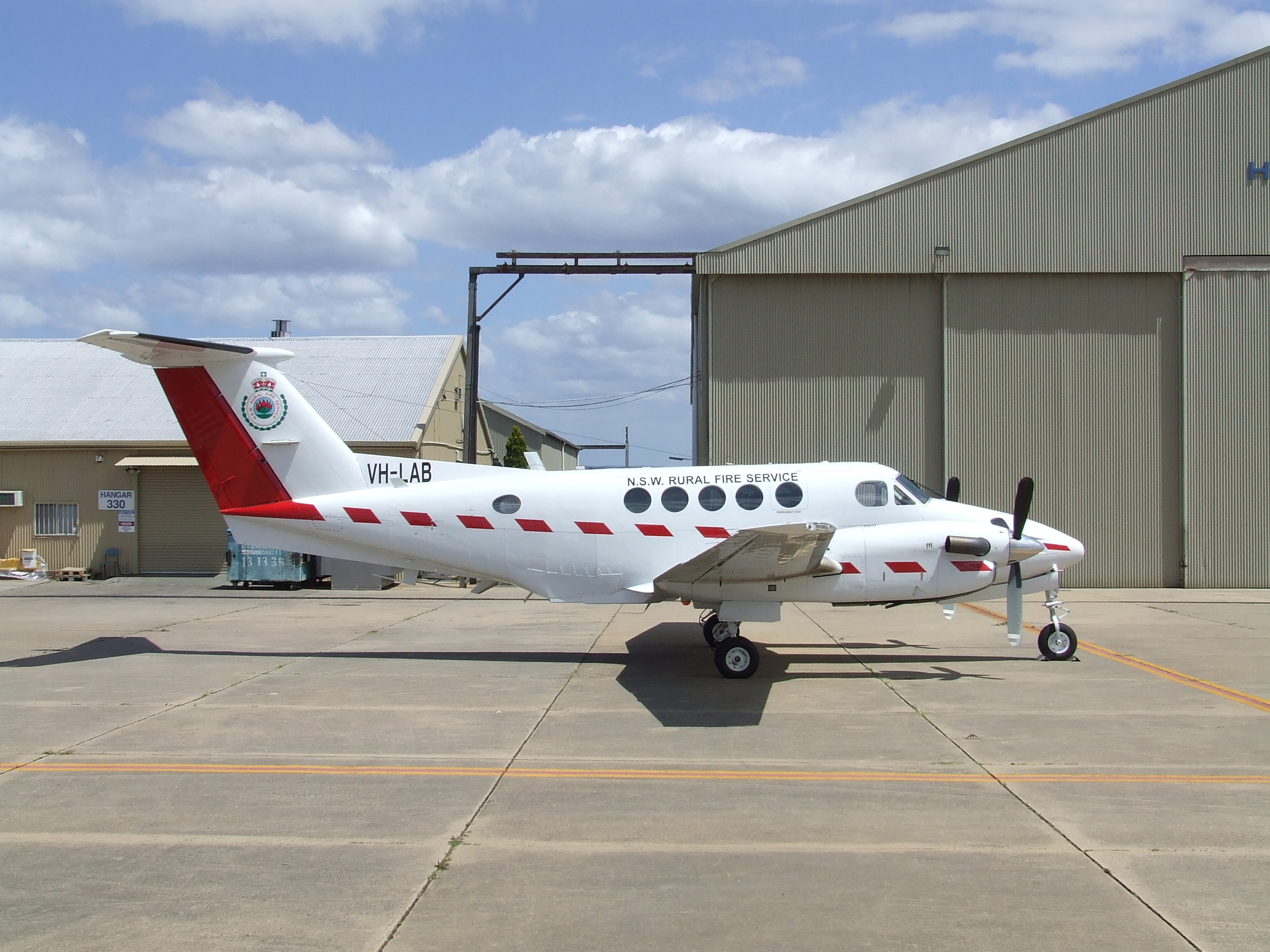 Beechcraft Model 200T and B200T Super King Airs were modified at the factory from standard Model 200s and B200s. The modifications included alterations to the belly aft of the wing to permit aerial photography, as seen on this B200T at Bankstown Airport. Digital photo of B200T VH-LAB taken by YSSYguy on October 29 2006 & uploaded for use in Beechcraft Super King Air article.